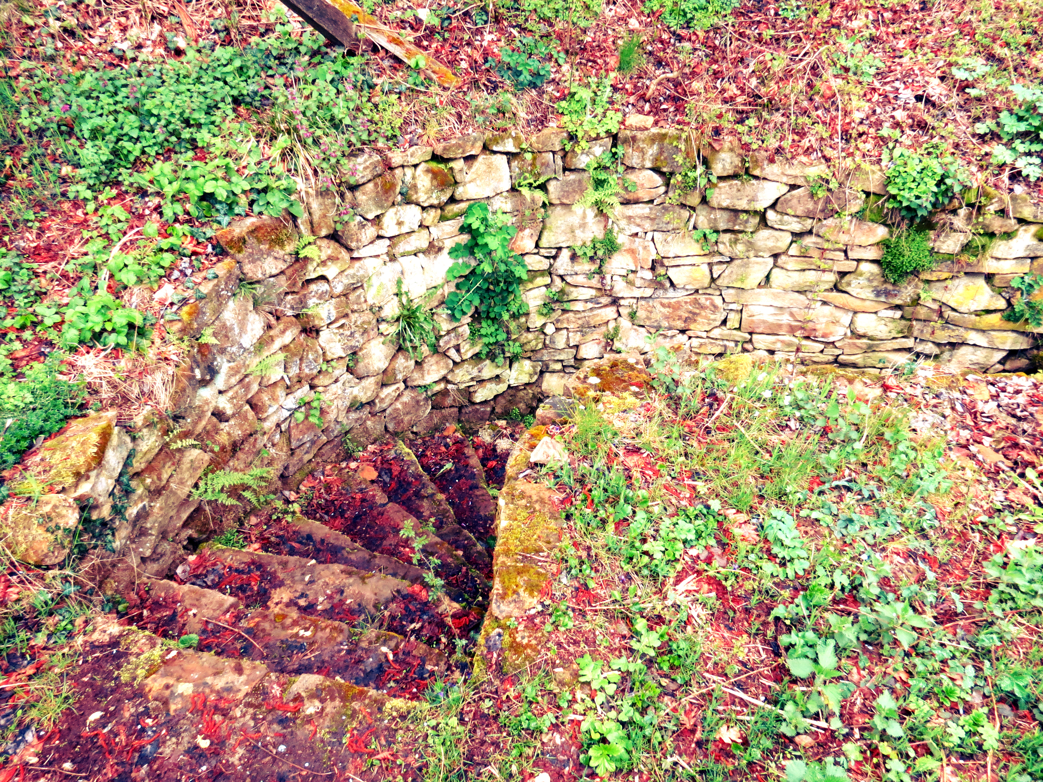 Staircase Garlo SWell BG